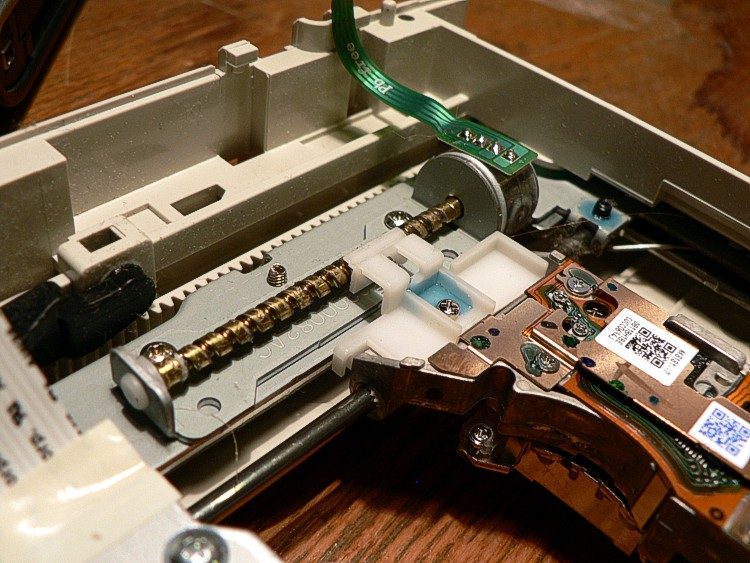 optical drive part optical head servo